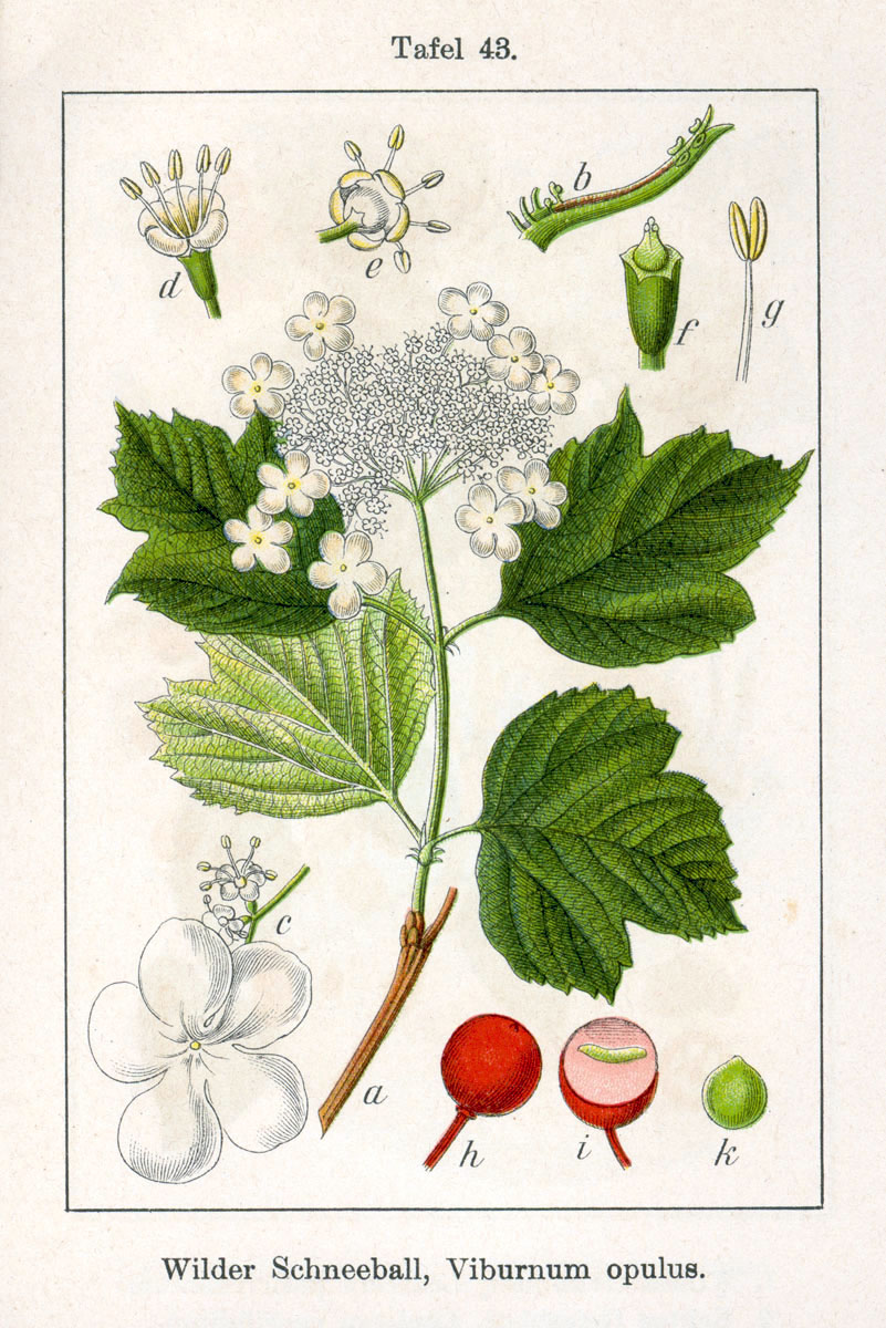 Viburnum opulus L. Original Description Wilder Schneeball, Viburnum opulus